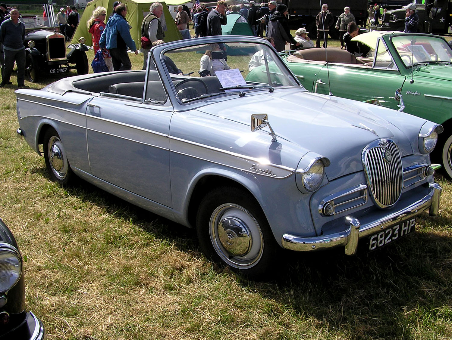 1960 Singer Gazelle IIIB Convertible at Yate Car Show, Yate, Bristol, England.